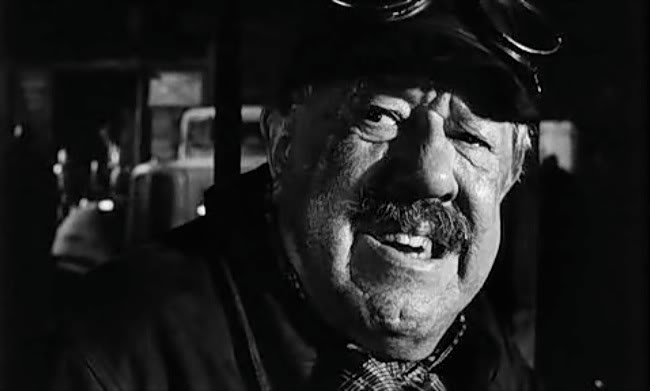 Michel Simon in The Train - trailer (cropped screenshot)